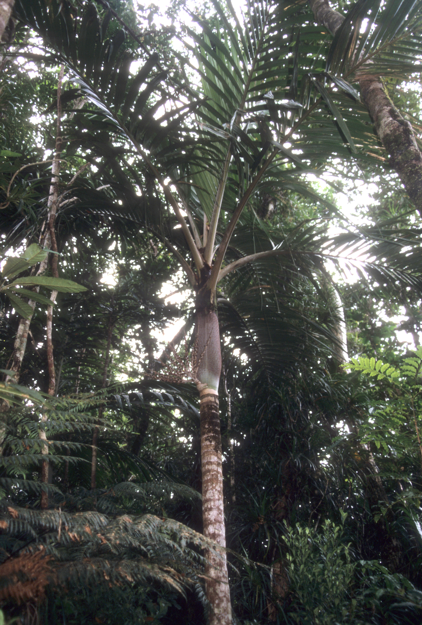 Chambeyronia lepidota, Mt. Panié, New Caledonia. 11 Oct 2000.